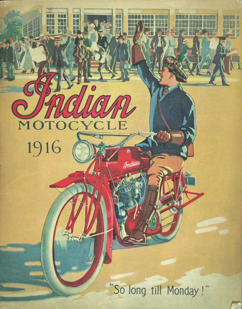 This jaunty cover image from a 1916 catalog for Indian Motorcycles shows a happily-waving young gentleman bidding his co-workers goodbye with the tagline "So Long Till Monday!" His stylish and sporty outfit, featuring leather riding gaiters and gloves, jodhpurs, and a tweed newsboy cap with goggles, provides a sharp contrast to the other more conservatively dressed employees flooding out of the office in their dress suits and straw boaters. The beautiful bright red Indian Motorcycle on the cover, with its white tires and shiny chrome accessories, was designed for racing and adventure, and attracted buyers who were interested in both recreation and practical transportation (while inspiring the envy of their friends and neighbors). Indian Motorcycles, manufactured by the Hendee Manufacturing Company (later renamed the Indian Motorcycle Manufacturing Company) of Springfield, Massachusetts, were the first motorcycles to be manufactured in America. The Company's co-owners, George Hendee and Carl Oscar Hedstrom, focused on technological innovations that would increase the speed and horsepower of their motorcycles, and in 1916 they released a model with a Powerplus engine. Indian Motorcycles from this era were used by the United States military during World War I, as well as by police departments across the nation. This Indian Motorcycle catalog is part of the Libraries' Trade Literature Collection, which includes more than 500,000 items documenting the history of American products, inventions, and advertising from the 19th and 20th centuries. -- Diane Shaw.